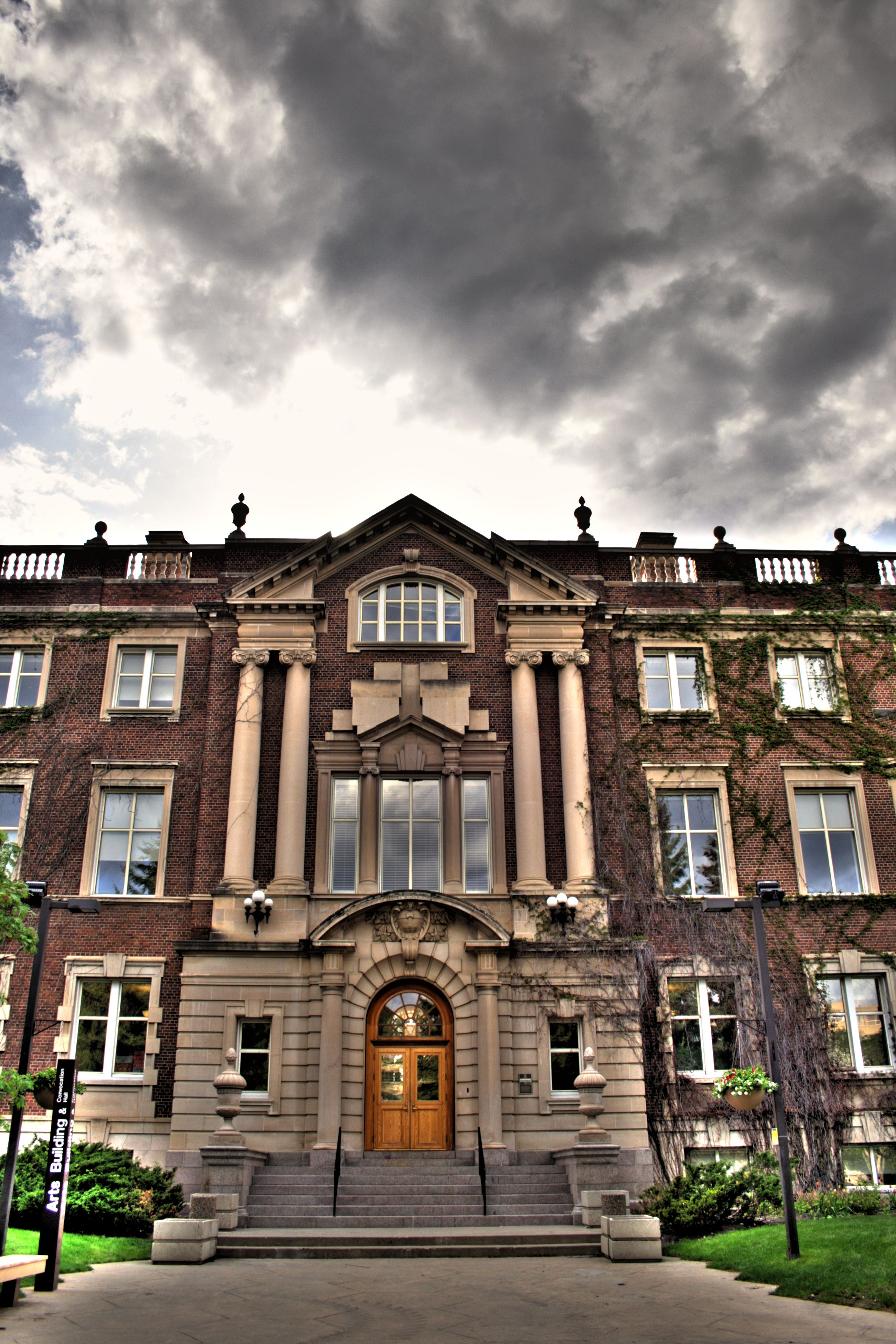 Entrance to the Arts Building and Convocation Hall on the campus of the University of Alberta, Edmonton, Alberta, Canada.